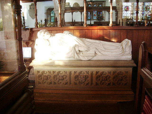 Monument to Robert Southey in St Kentigern's Parish Church, Crosthwaite, Cumbria